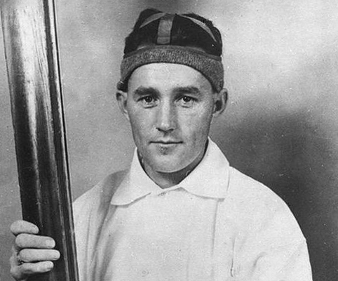 Cross country skier Sven Utterström won the gold medal at the 1932 Winter Olympic in the 18 kilometre competition.